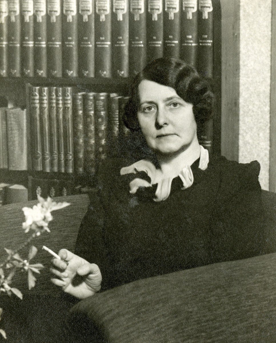 Margarete Bonnevie, from an advertisement campaign for Tiedemanns Tobaksfabrik in the 1930s